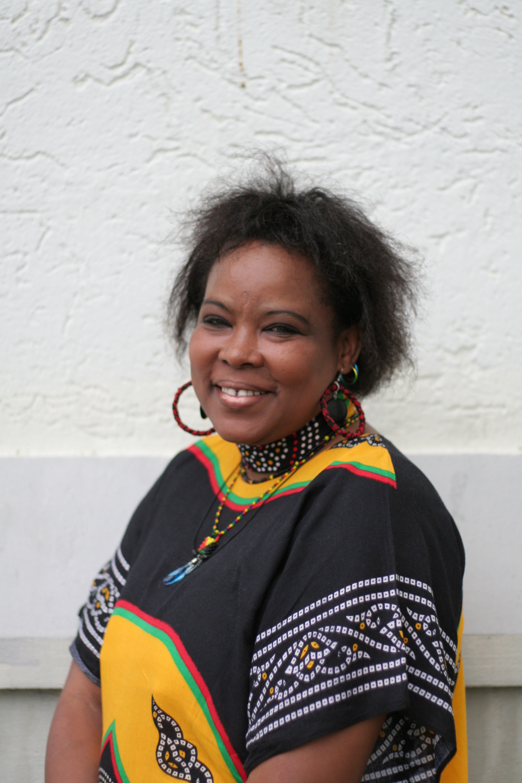 Chiku Ali, a local politician from Bergen, Norway.